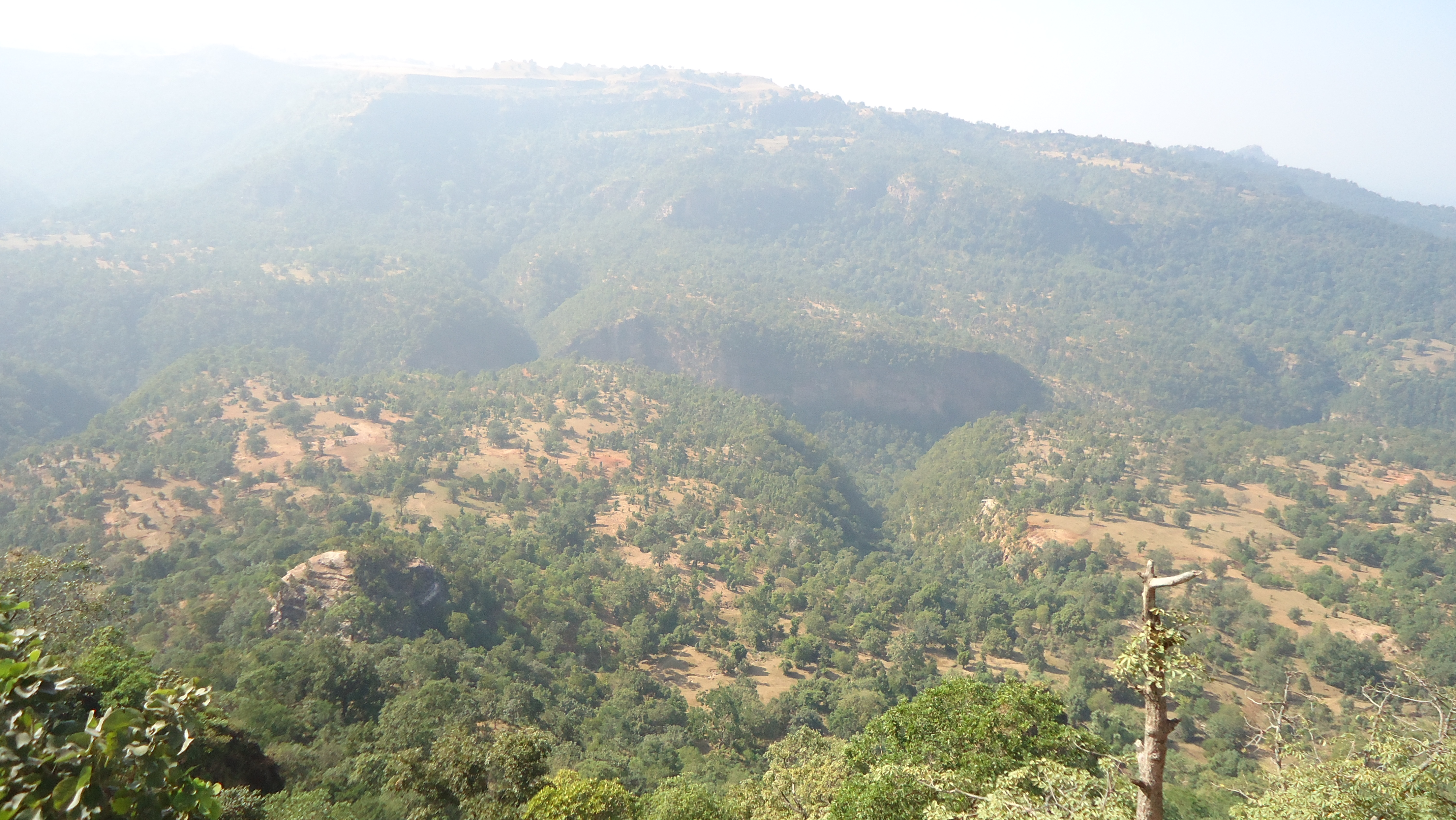 Patalkot looks beautiful from top. It has staircase which almost took 2.5 hours to get down.